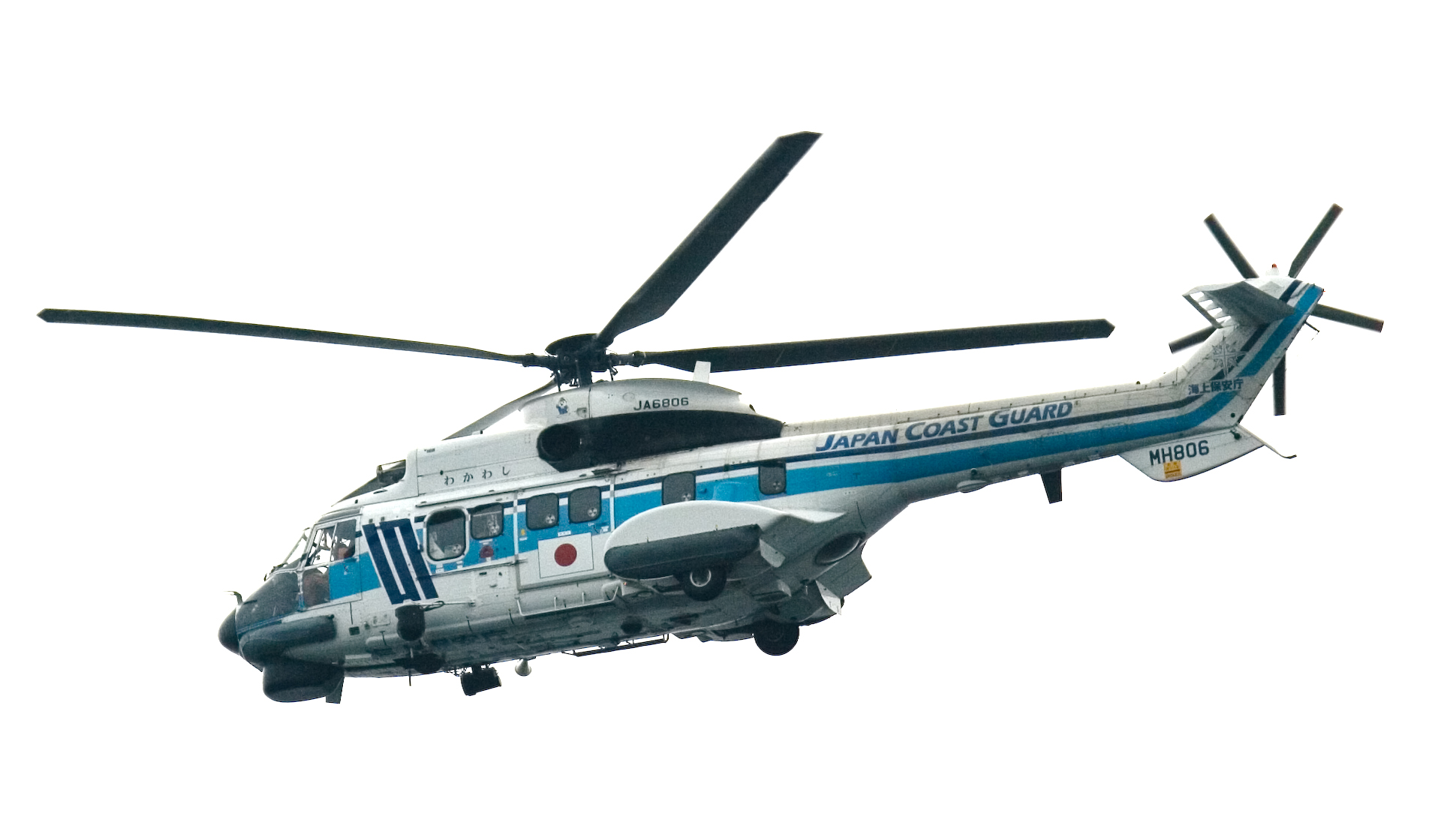 A Eurocopter AS322 Super Puma of the Japanese coast guard in Tokyo Bay.